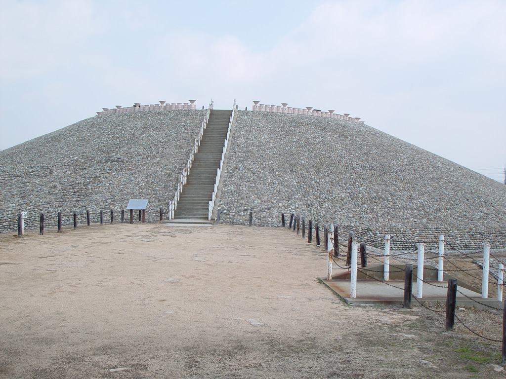 own digital picture, taken March 2006